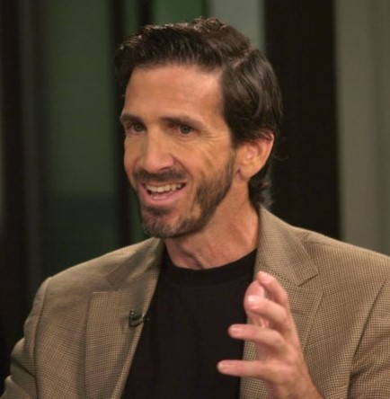 Adam Ravetch directed the National Geographic movie "Arctic Tales."